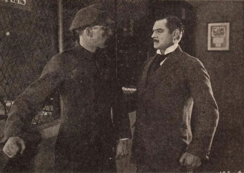 Still from the American drama film The Devil's Garden (1920) with an unidentified actor and Lionel Barrymore, on page 99 of the November 6, 1920 Exhibitors Herald.